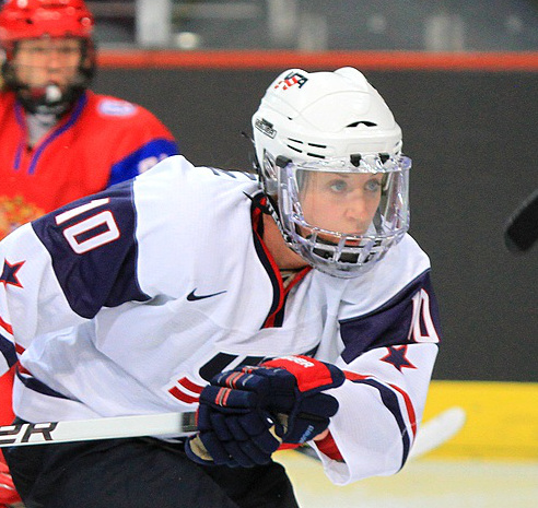 IIHF World Women Championship 2011. Preliminary Round Game Group A. USA - Russia 13-1. (cropped down)